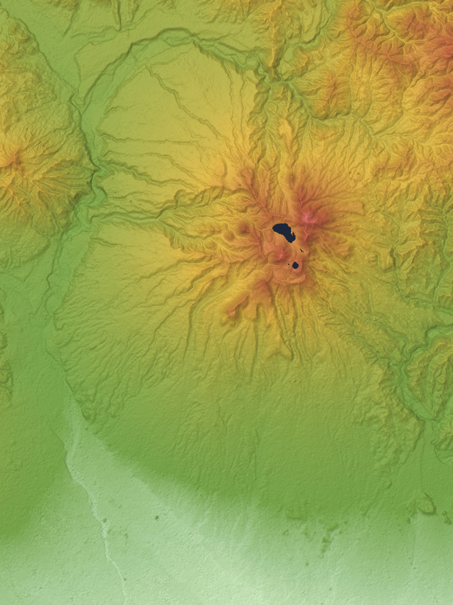 Massif of Mount Akagi in Gunma Prefecture, Honshu, Japan.